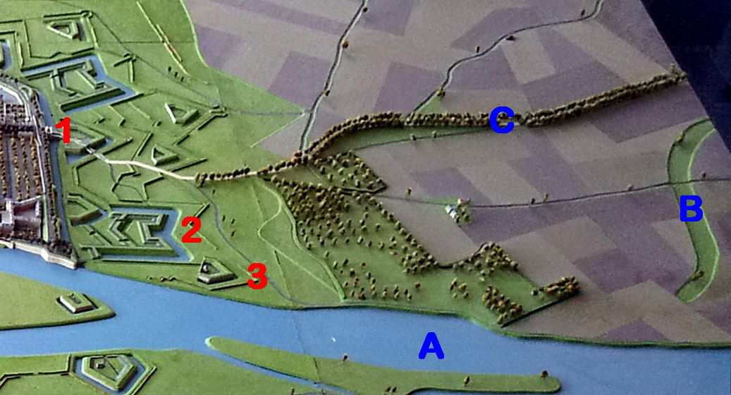 Detail of the Maquette of Maastricht. The scale model was made in 1974-1982, a genuine copy of the 18th-century original made for King Louis XV of France, now in the Palais des Beaux-Arts in Lille). Here the northern part of the fortifications is shown with: 1 Boschpoort; 2 Bosch Hornwork ; 3 Lunette Le Roy; A River Meuse; B Anabranch or spillway; C Bosscherweg